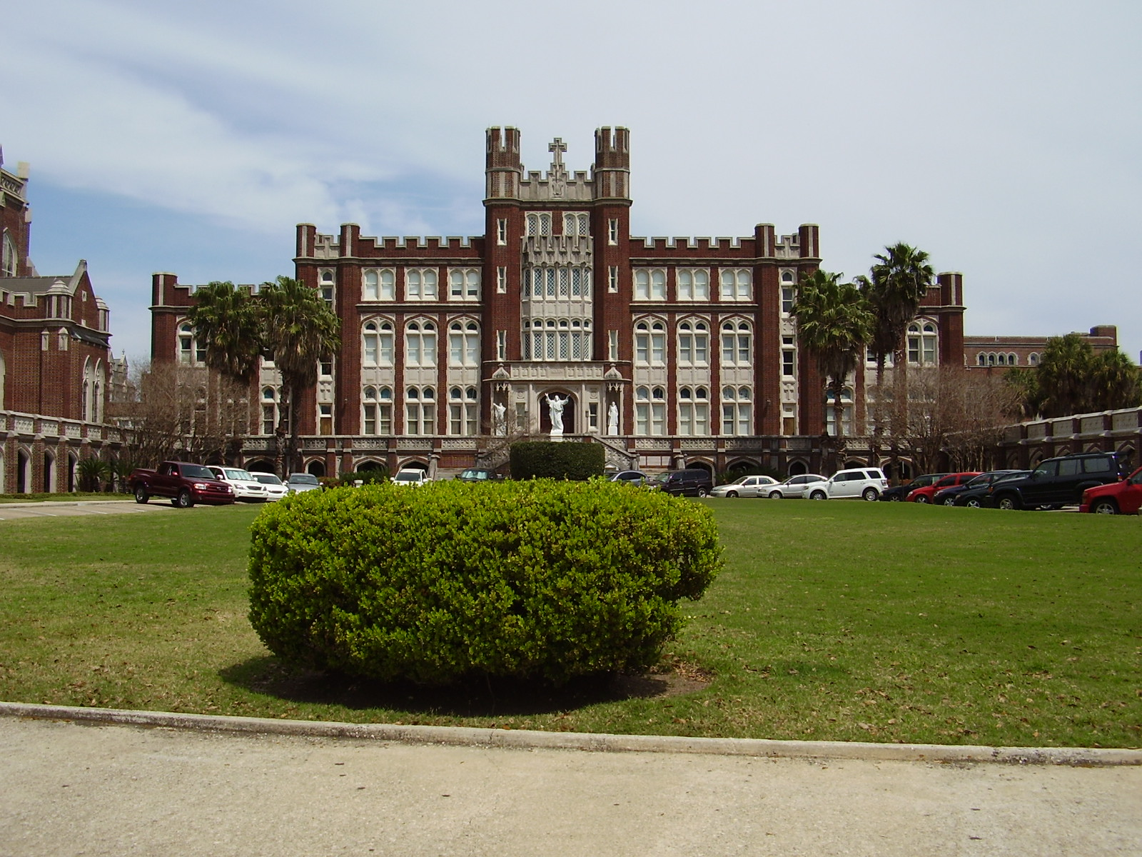 Loyola University, New Orleans. View from St. Charles Avenue.